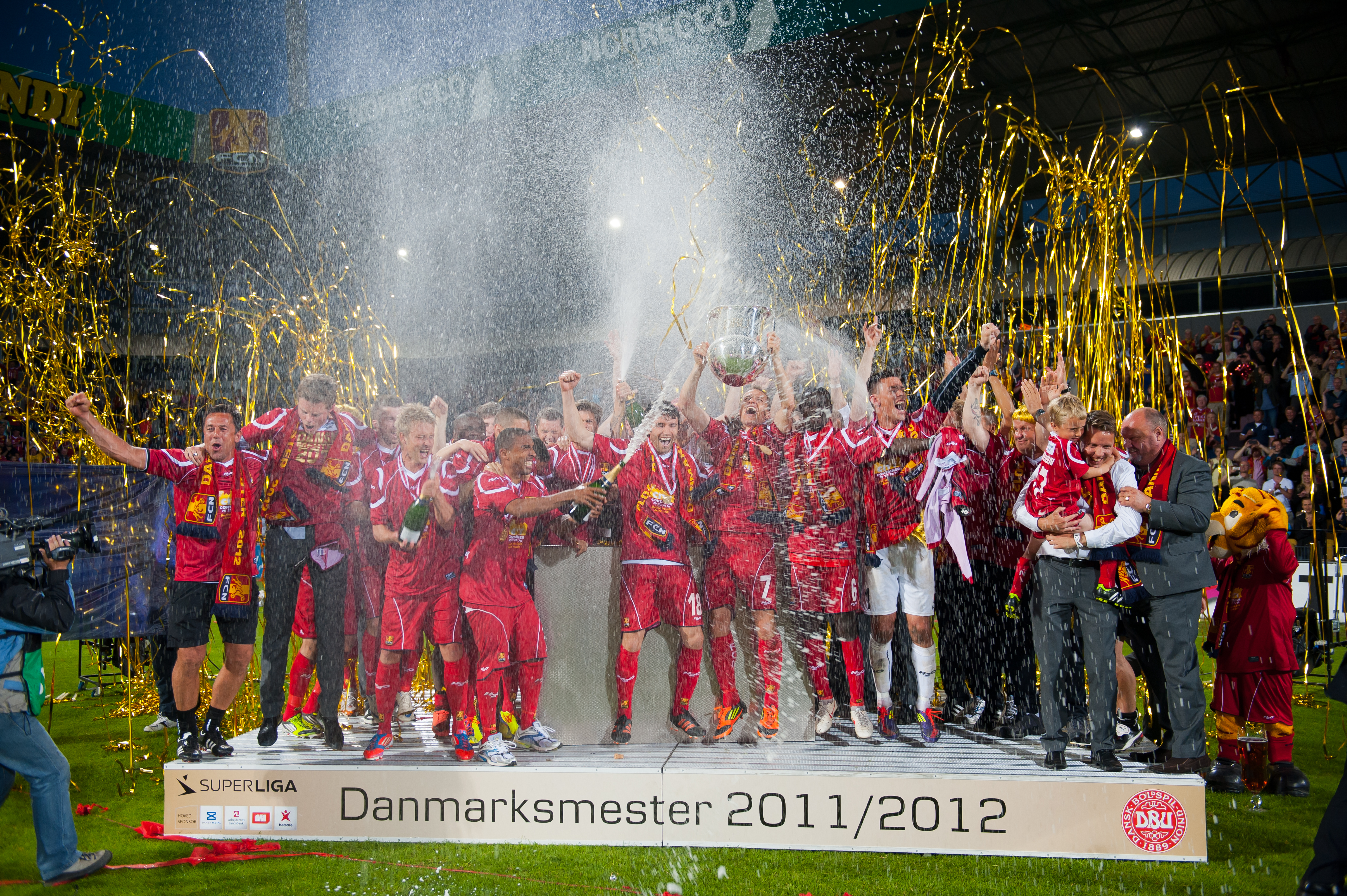 FCN fejrer det danske mesterskab.